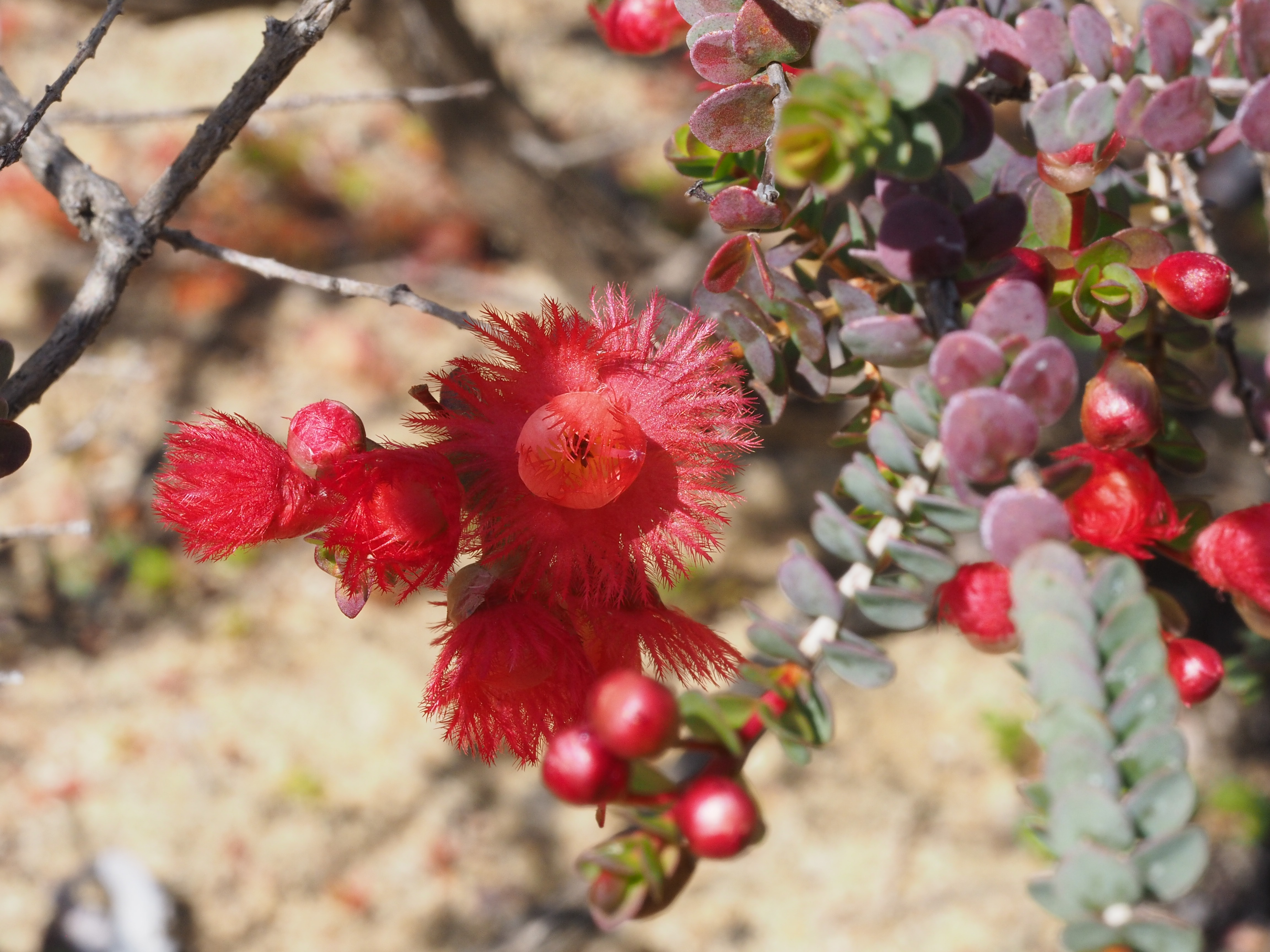 Verticortdia etheliana var. etheliana growing in Kings Park, Perth